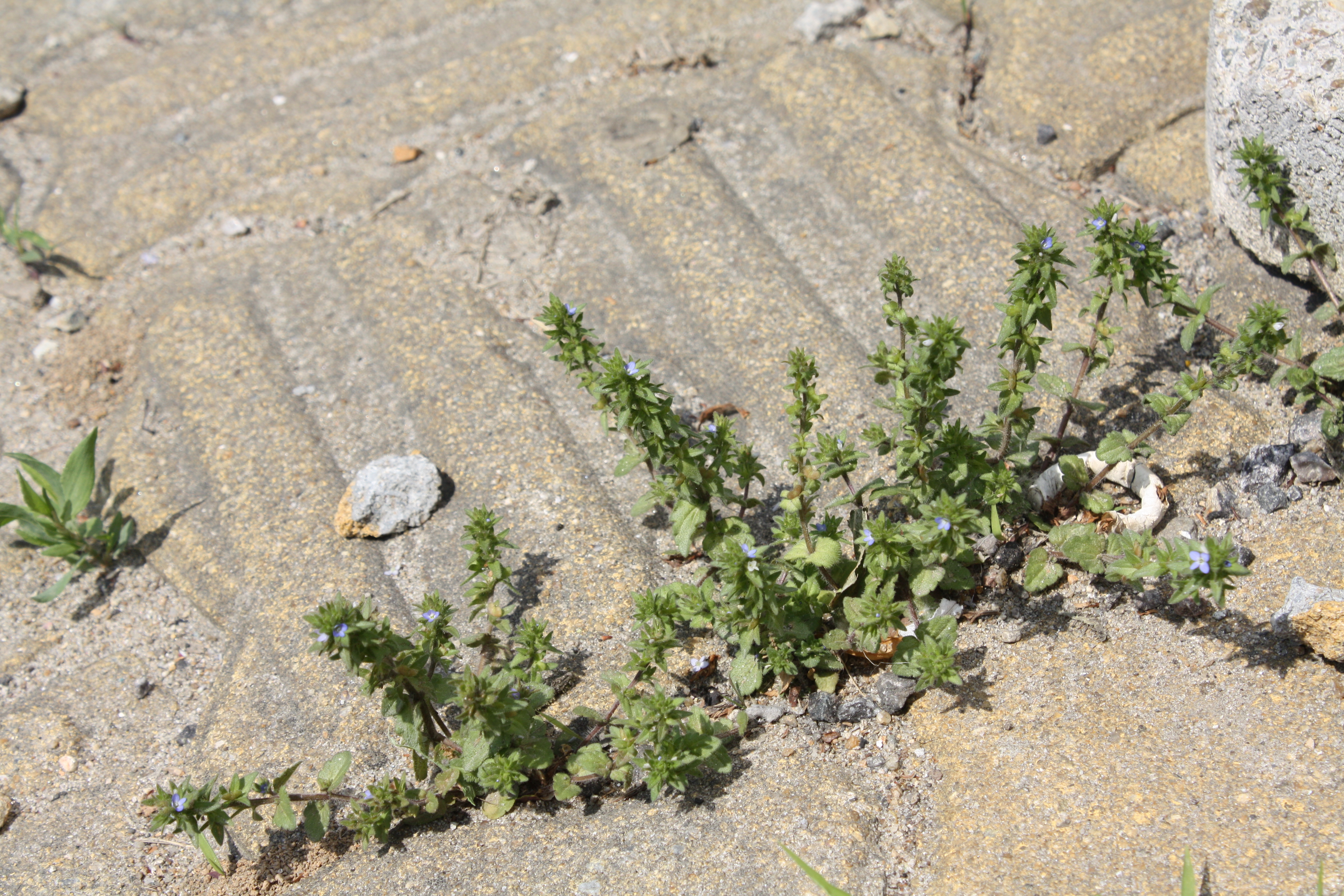 Veronica arvensis